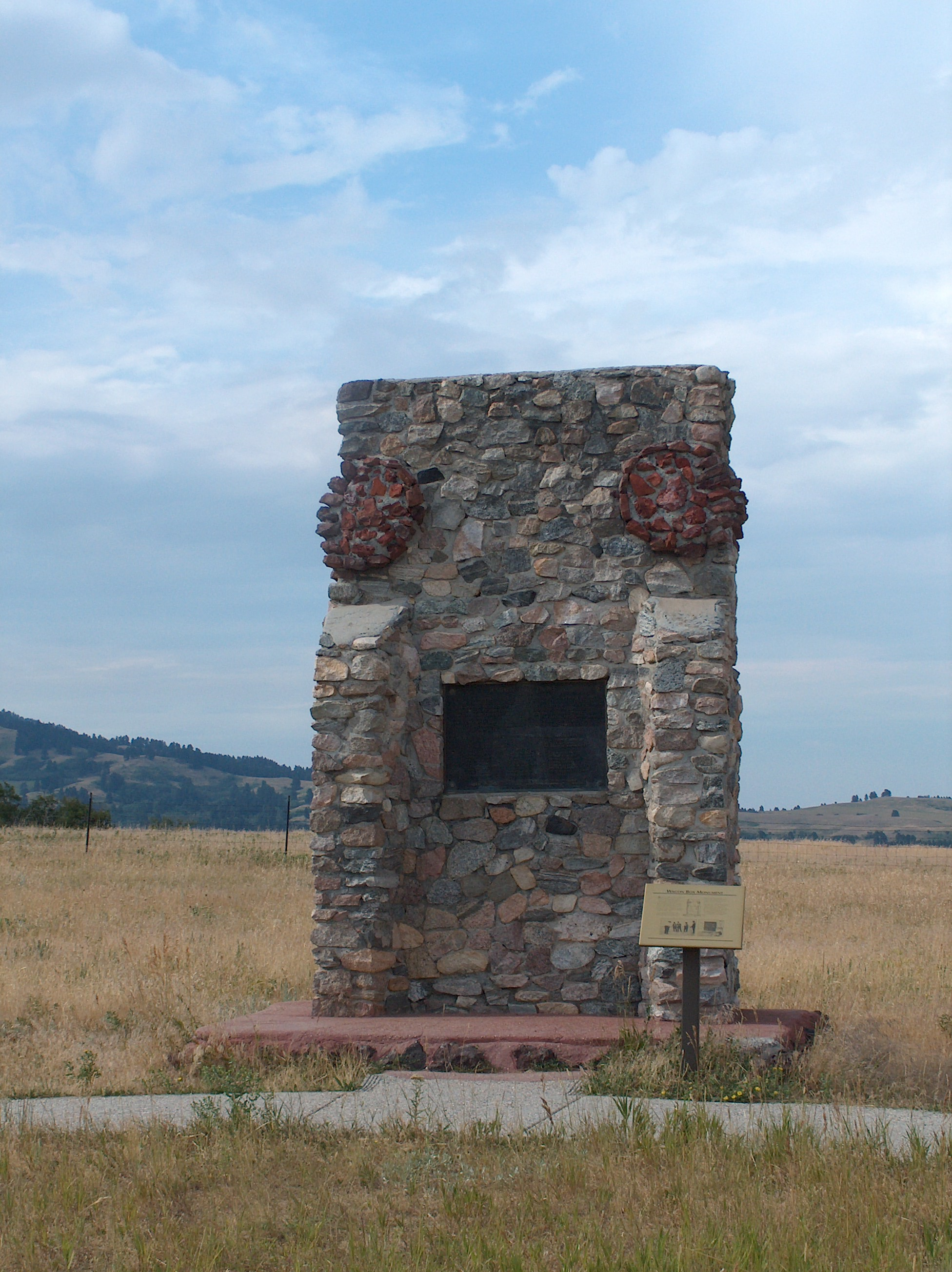 Wagon Box Fight site, near Fort Phil Kearney, between Buffalo and Sheridan, WY (photo: Gilles Coudert, 25 July 2007)